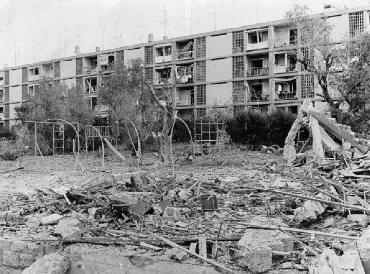 Architecture of Israel